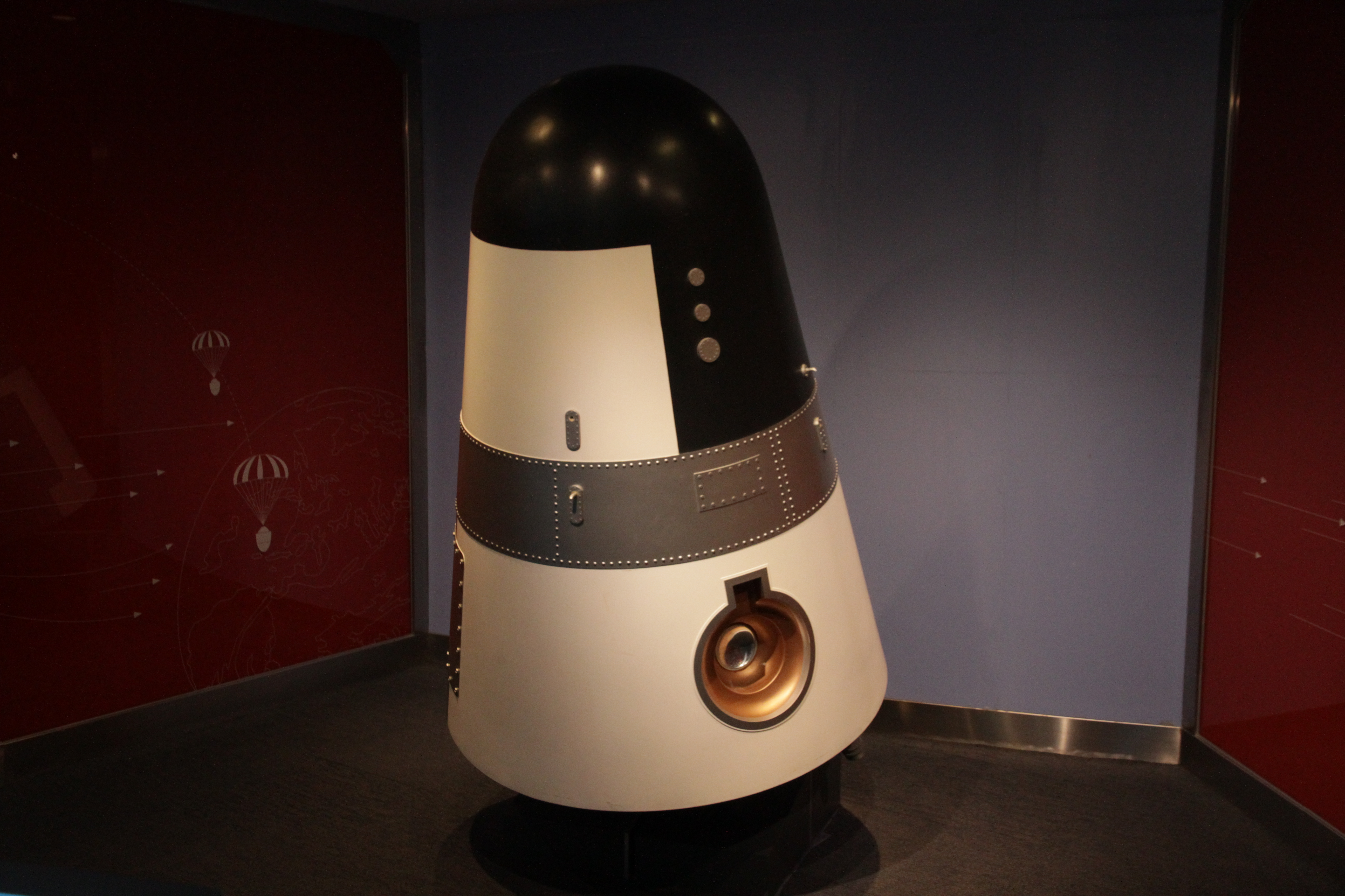 Mock-up of Chinese recoverable satellite (返回式卫星) at Shanghai Science & Technology Museum.